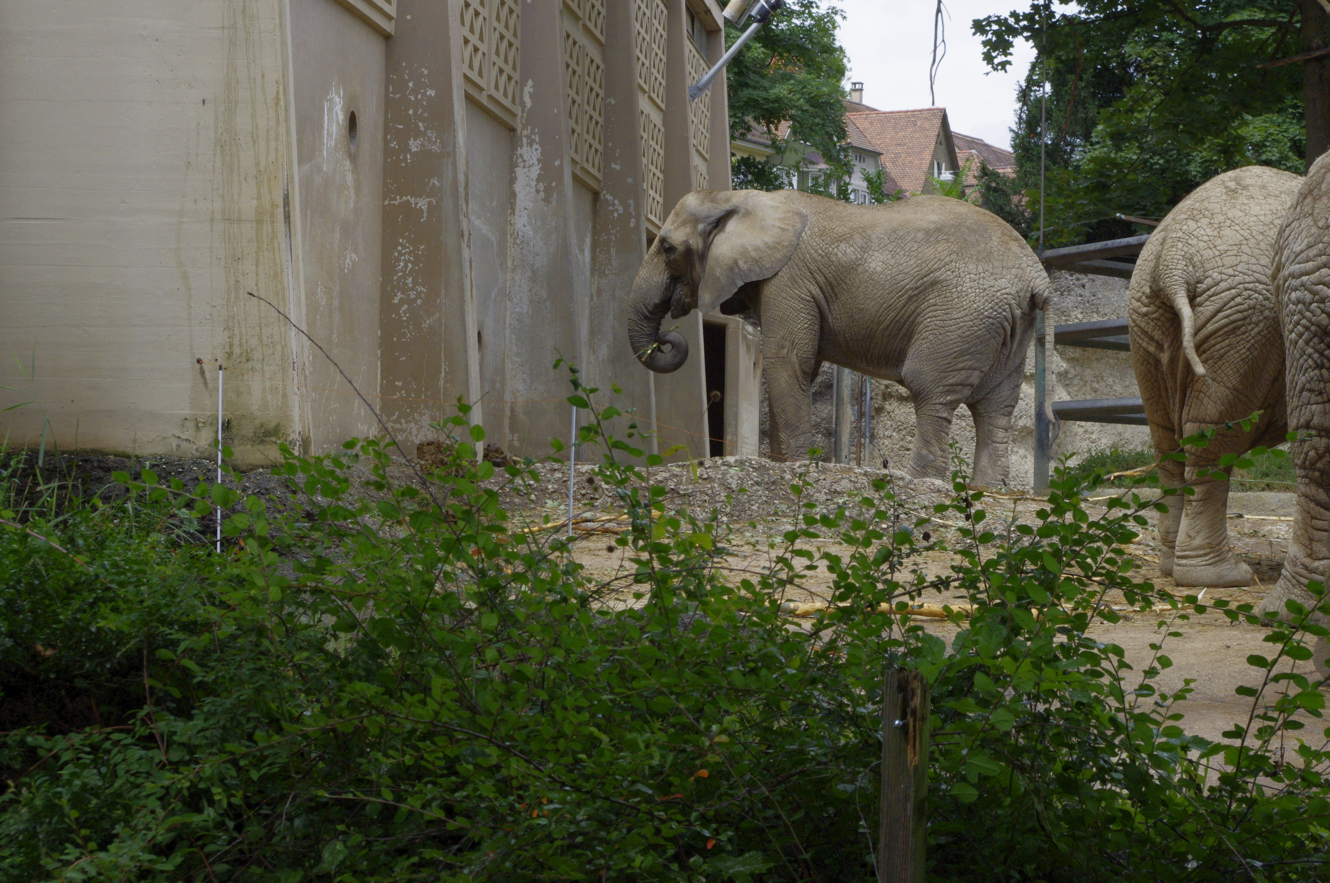 Basel Zoo - African elephant